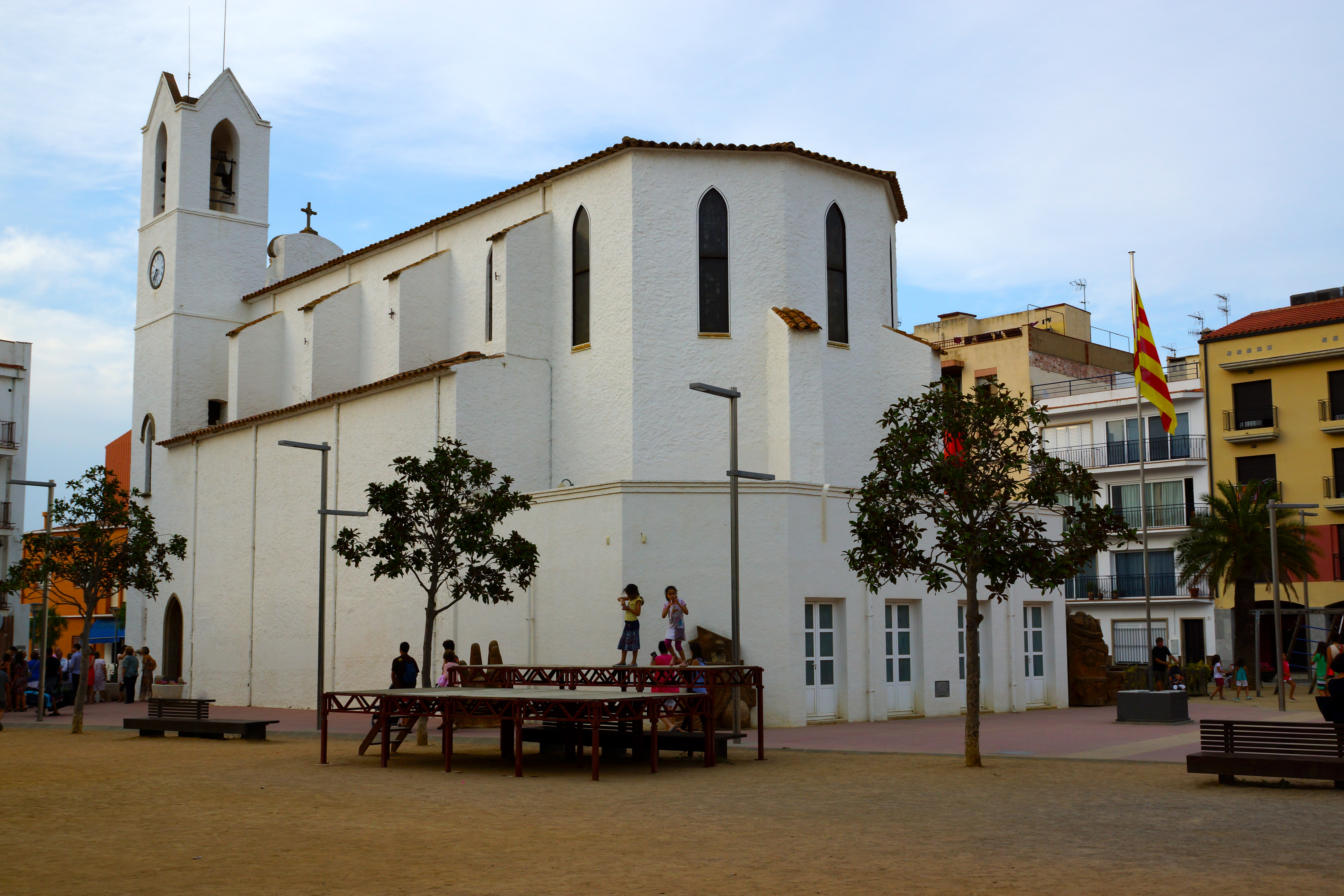 Calonge (Sant Antoni de Calonge), Catalonia: Anthony of Padua's Church, eastern facade